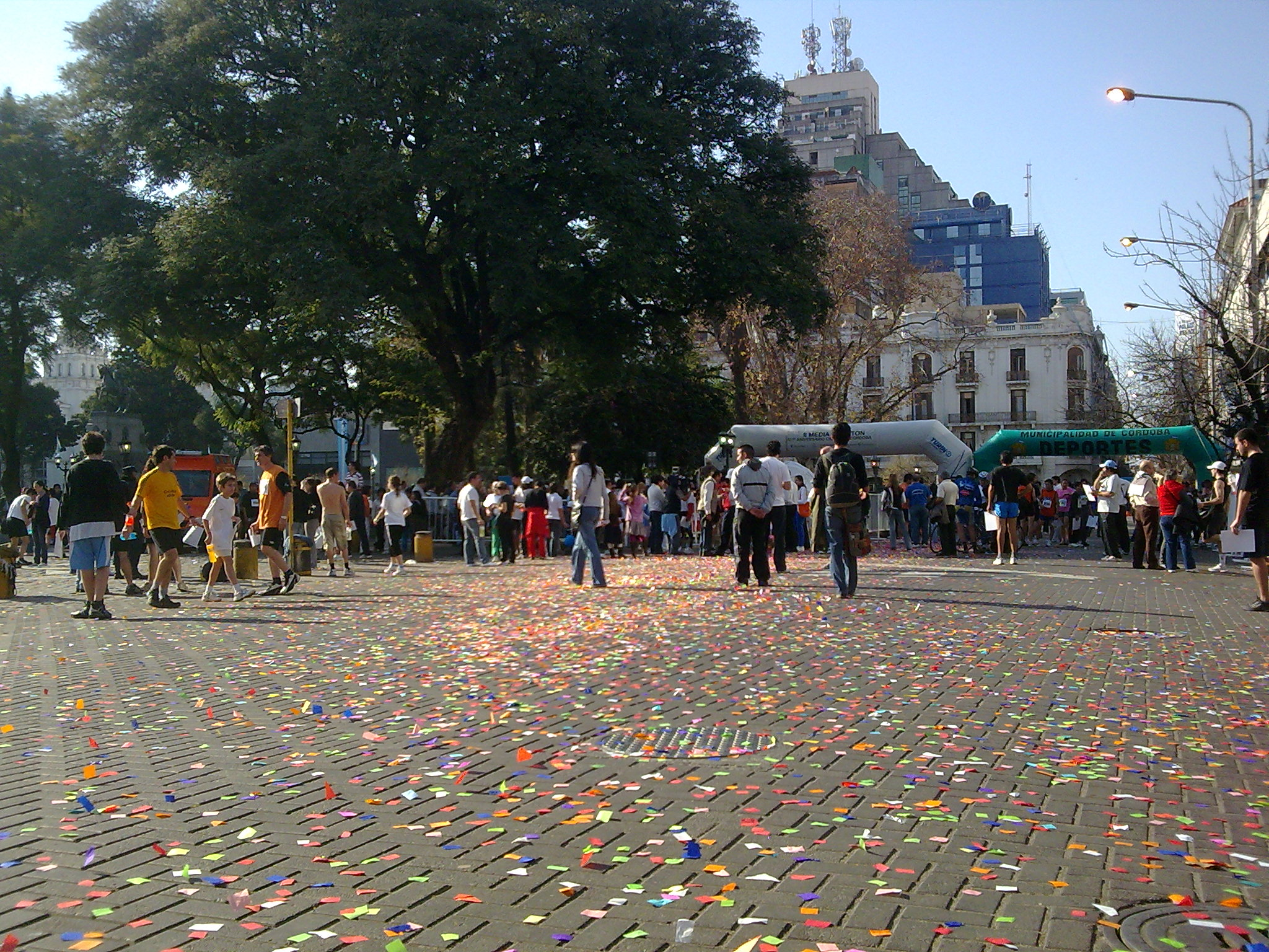 One of the marathons that are annually made in Cordoba, Argentina.